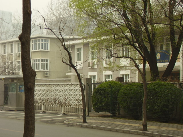 Embassy of Rwanda in Beijing